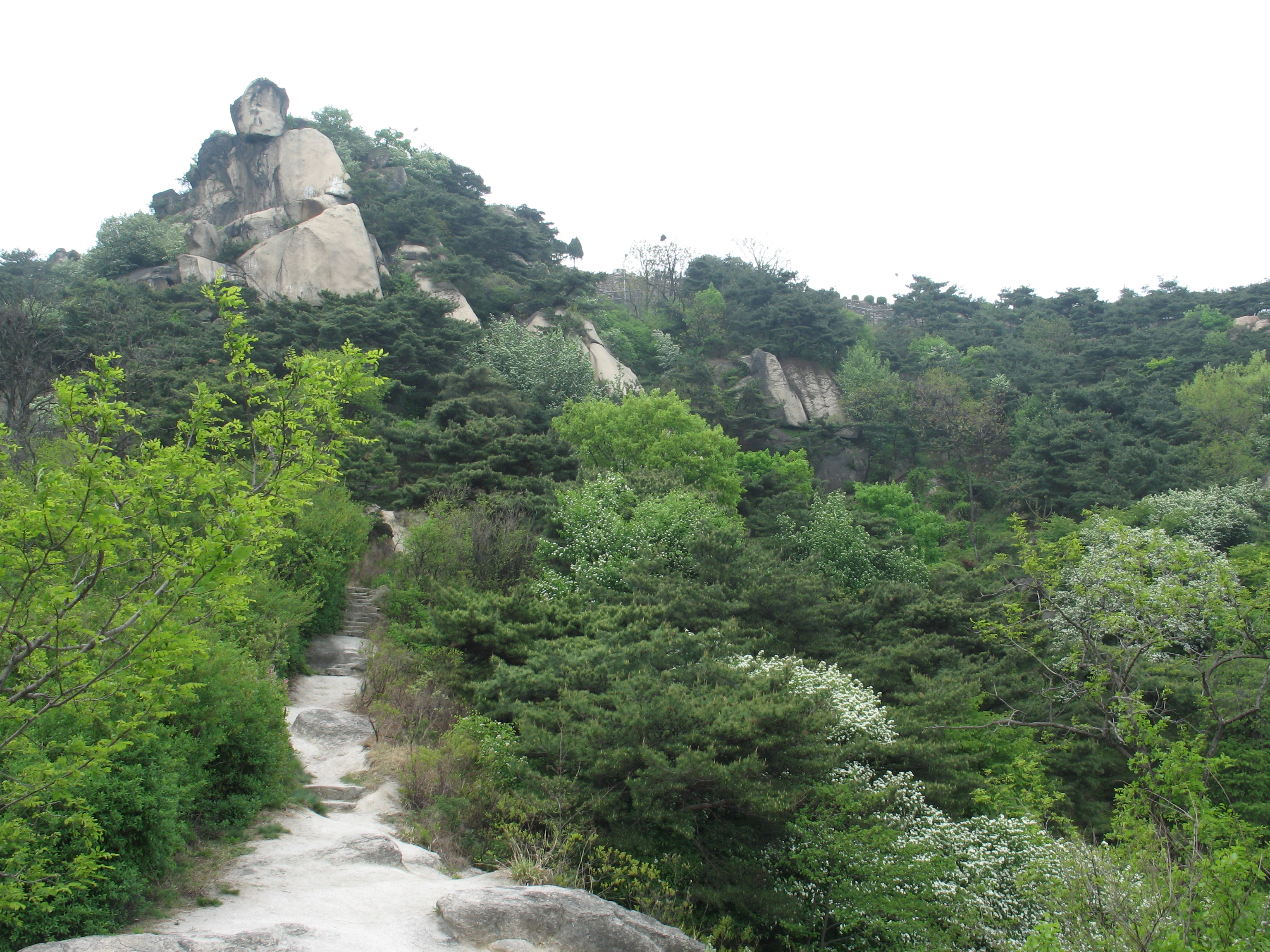 Mt. Inwangsan (인왕산) in Seoul, South Korea.